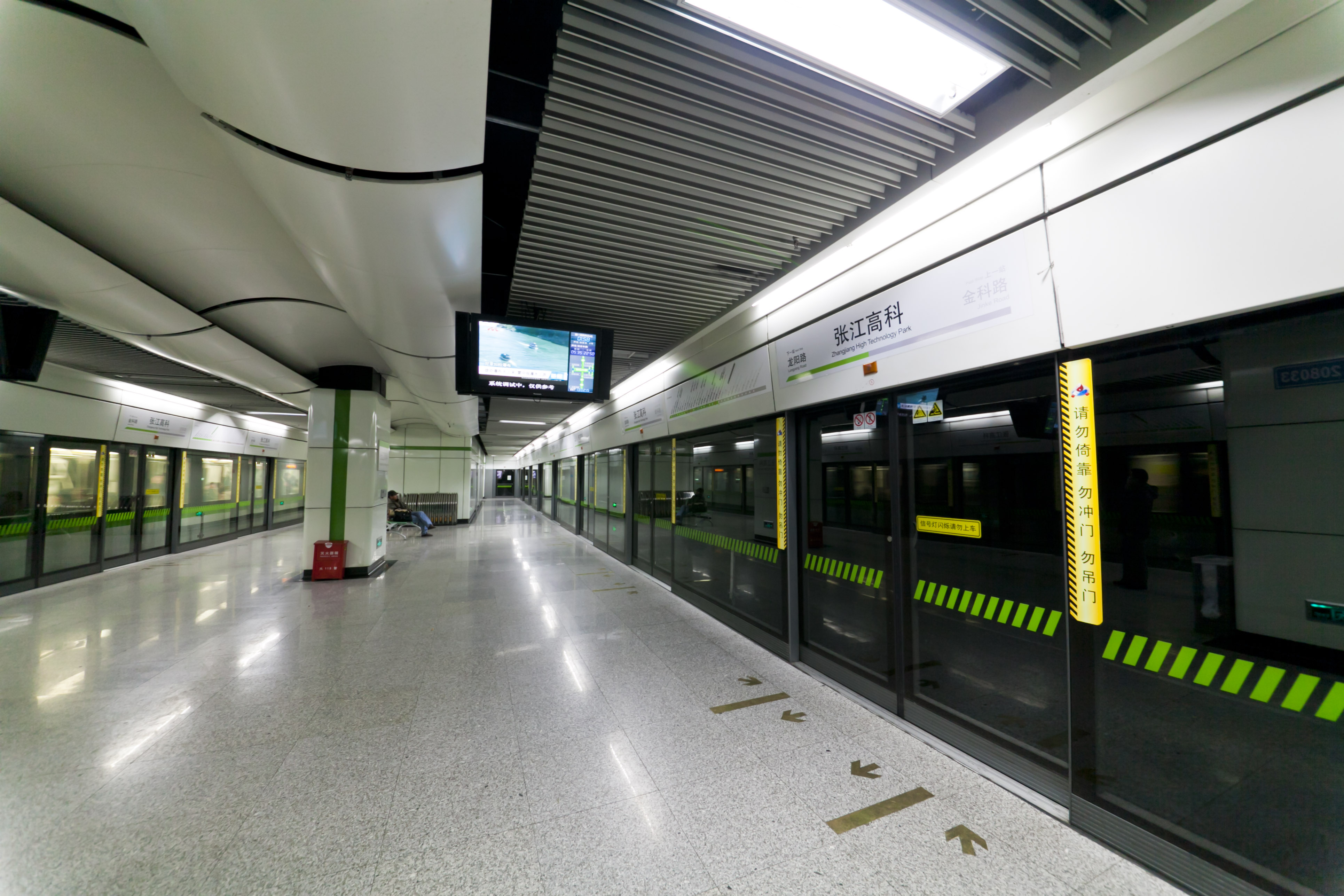 Shanghai Metro Line 2 Zhangjiang Hi-tech Station